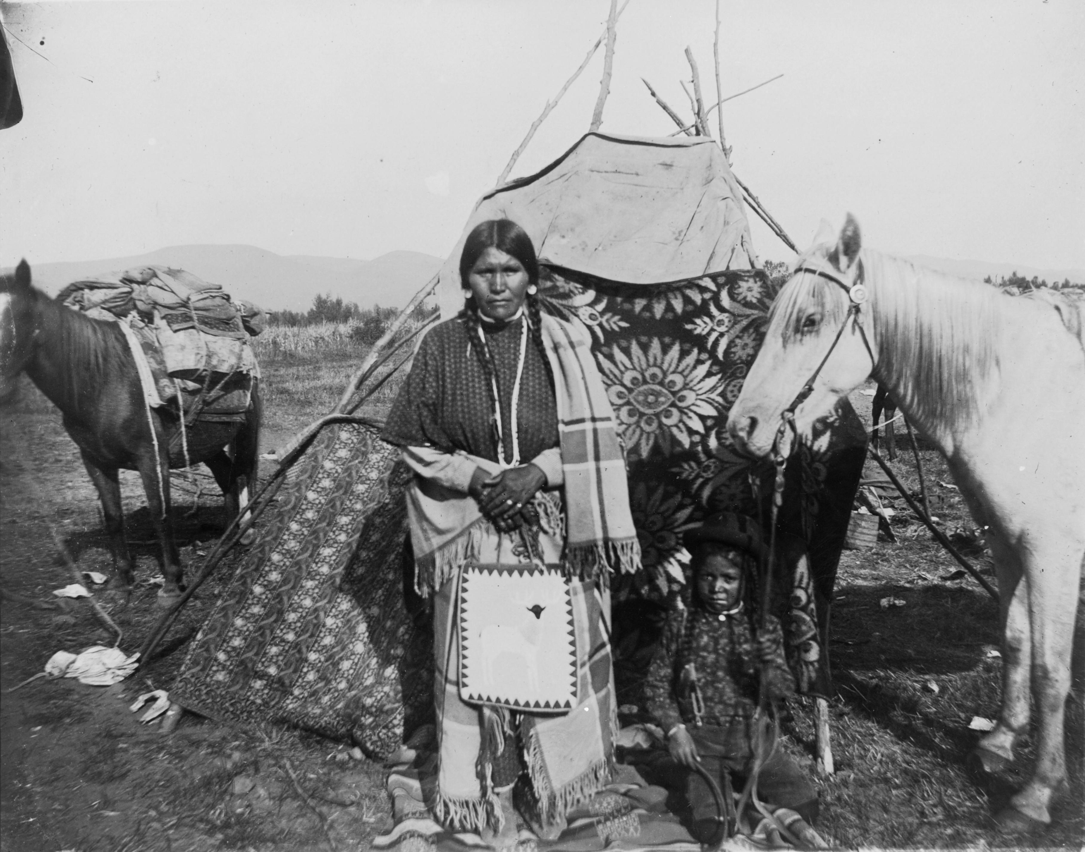 Little Woman Mountain and son Looking-away-off in front of tipi with two horses.